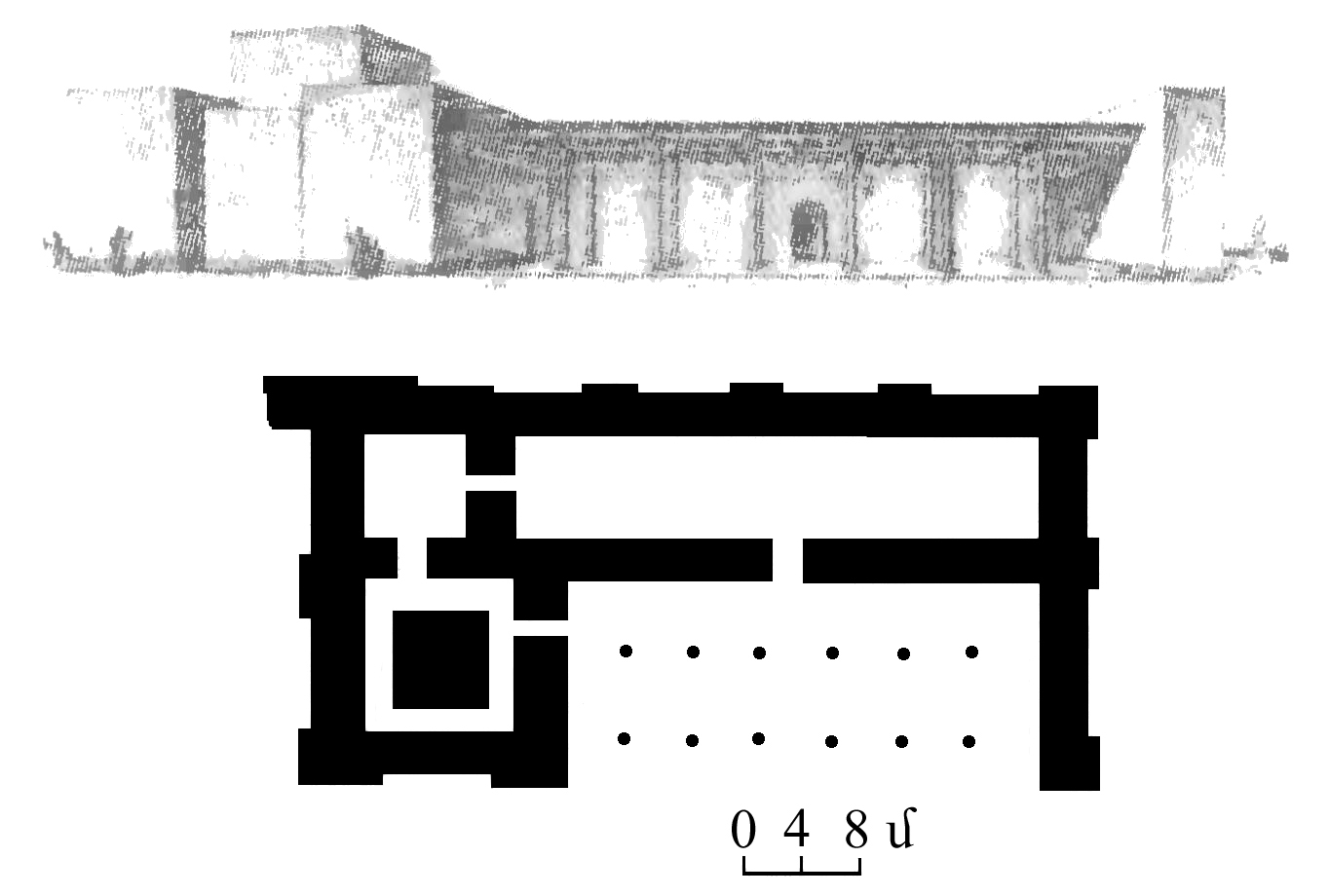 Plan of Khaldi tample. BC 782, (Reconstruected by K. Hovhannisyan)